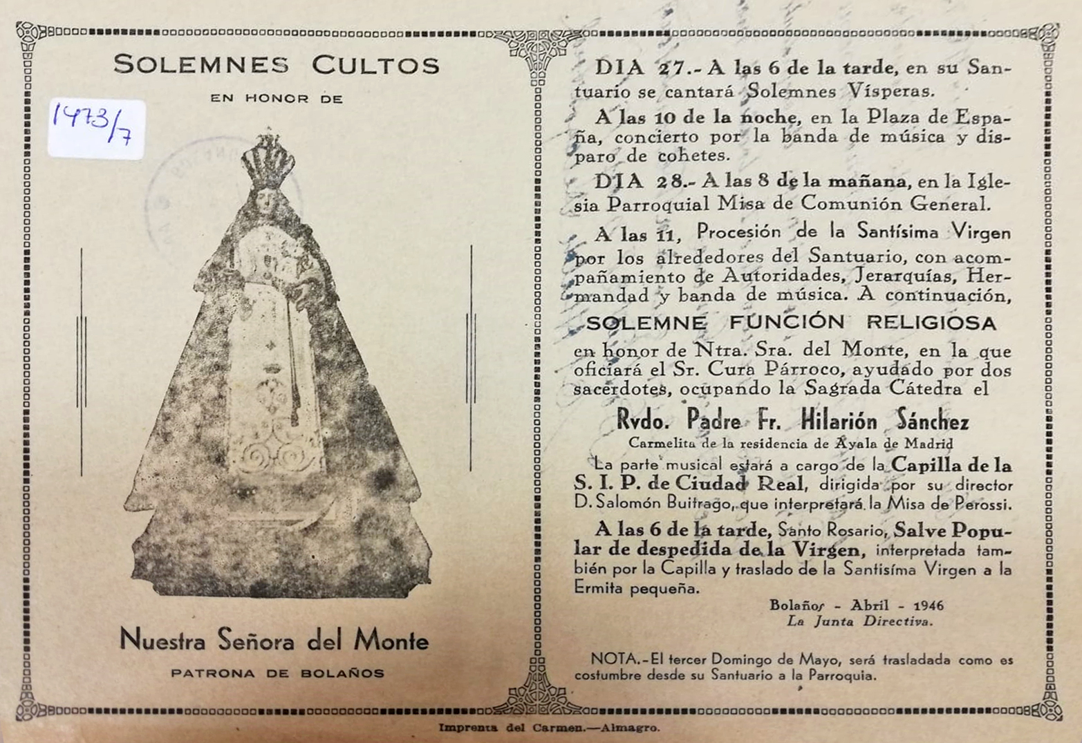 Solemn cults of the pilgrimage of Our Lady of the Mount, Bolaños (Spain) 1946.